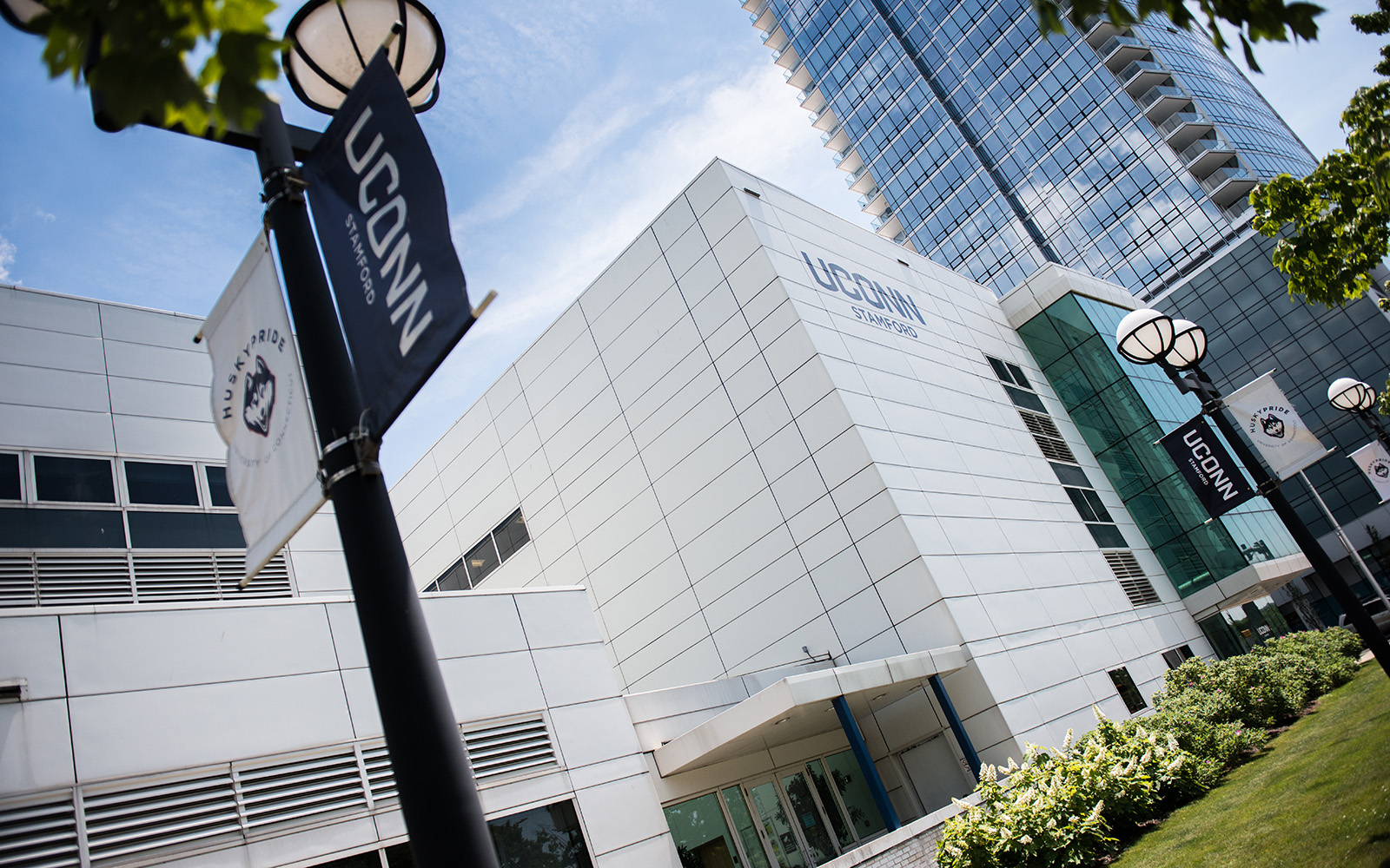 UCONN Stamford's main campus building in Stamford, Connecticut.